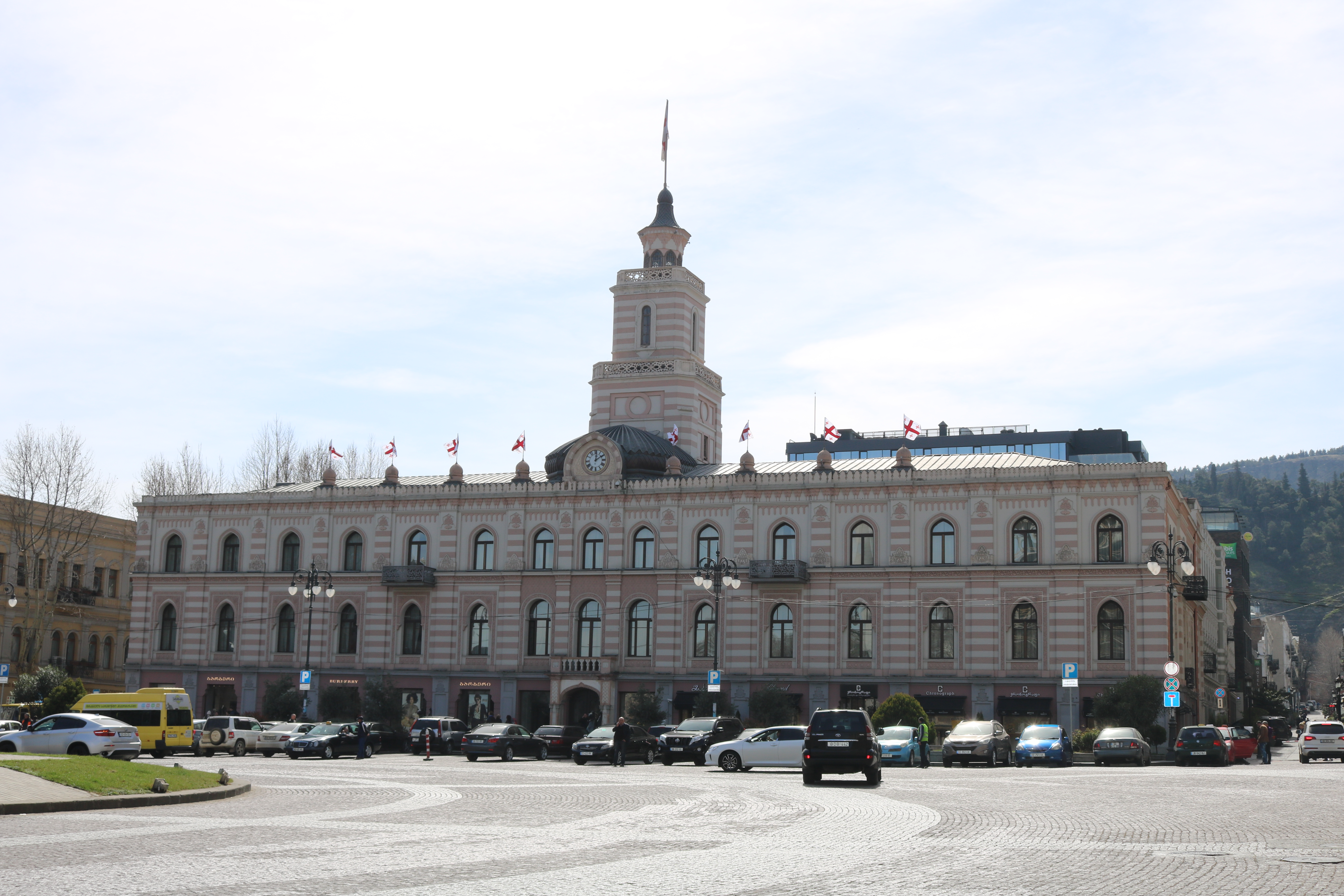 Tbilisi legislative body (Tbilisi Sakrebulo) building, view from Rustaveli avenue.